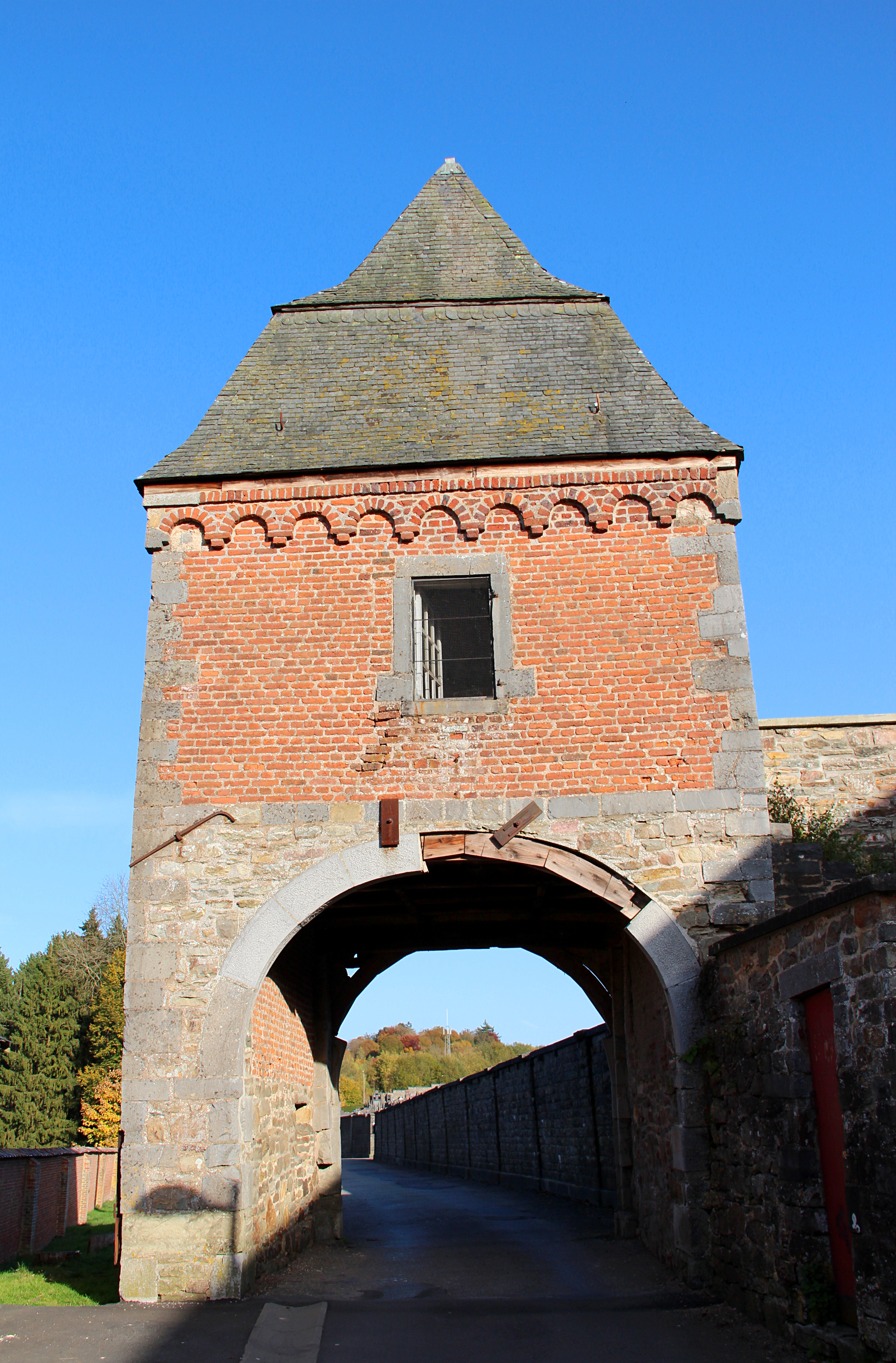 Saint-Hubert, Belgium, rue du Parc - The door (portico tower) of the abbey ensemble.